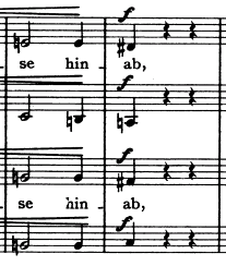 J. Brahms, Schicksalslied, Opus 54. Choral Excerpt 7.